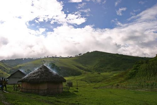 A village of the Bembe people in the Itombwe plateau, South Kivu, Democratic Republic of the Congo